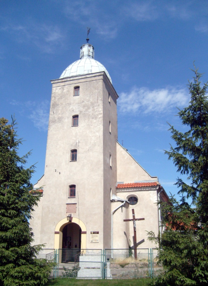 The church in Szynych, Poland.